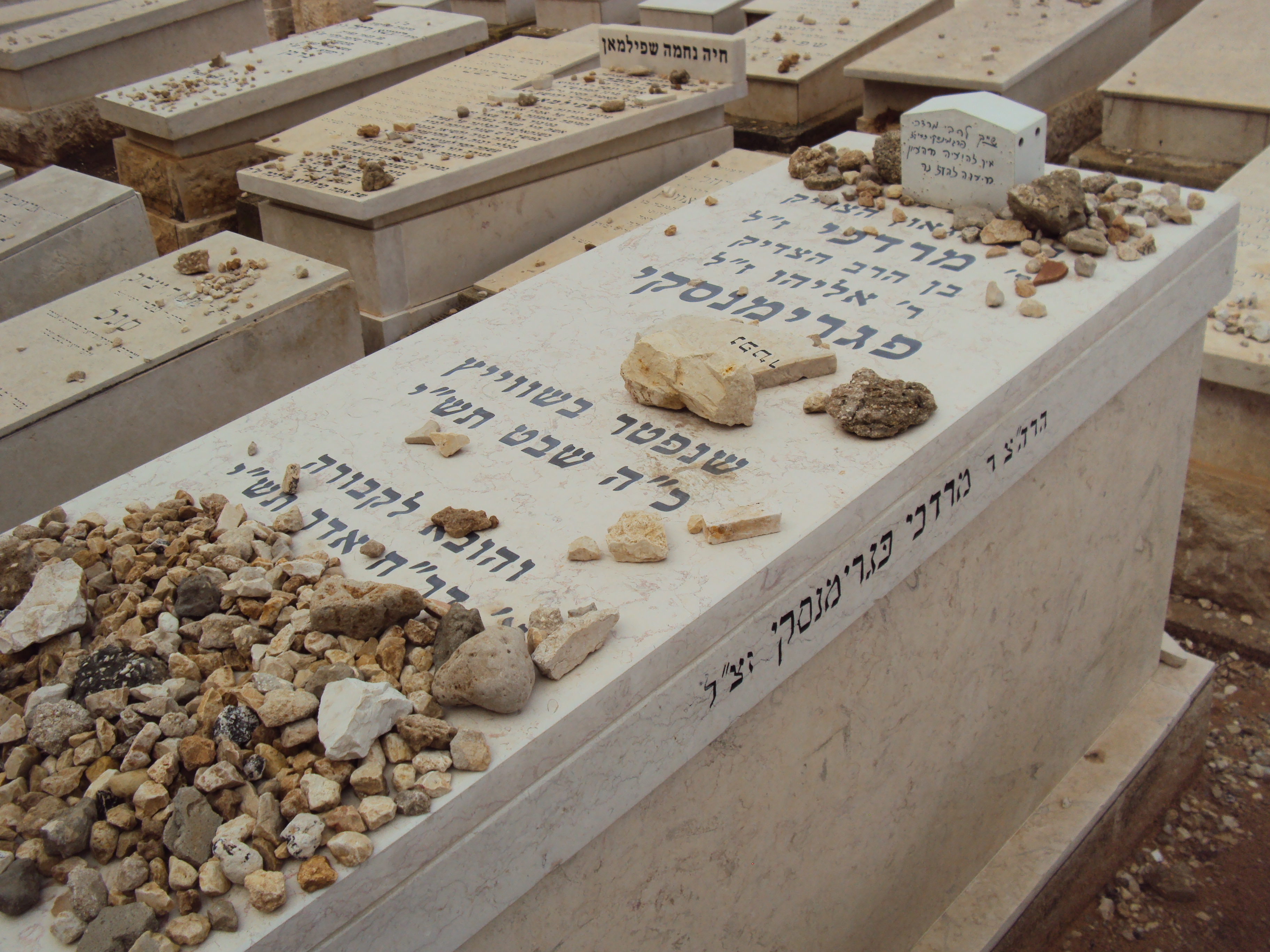 Grave of Rabbi Mordechai Pogramansky